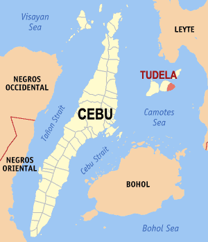 Map of Cebu showing the location of Tudela